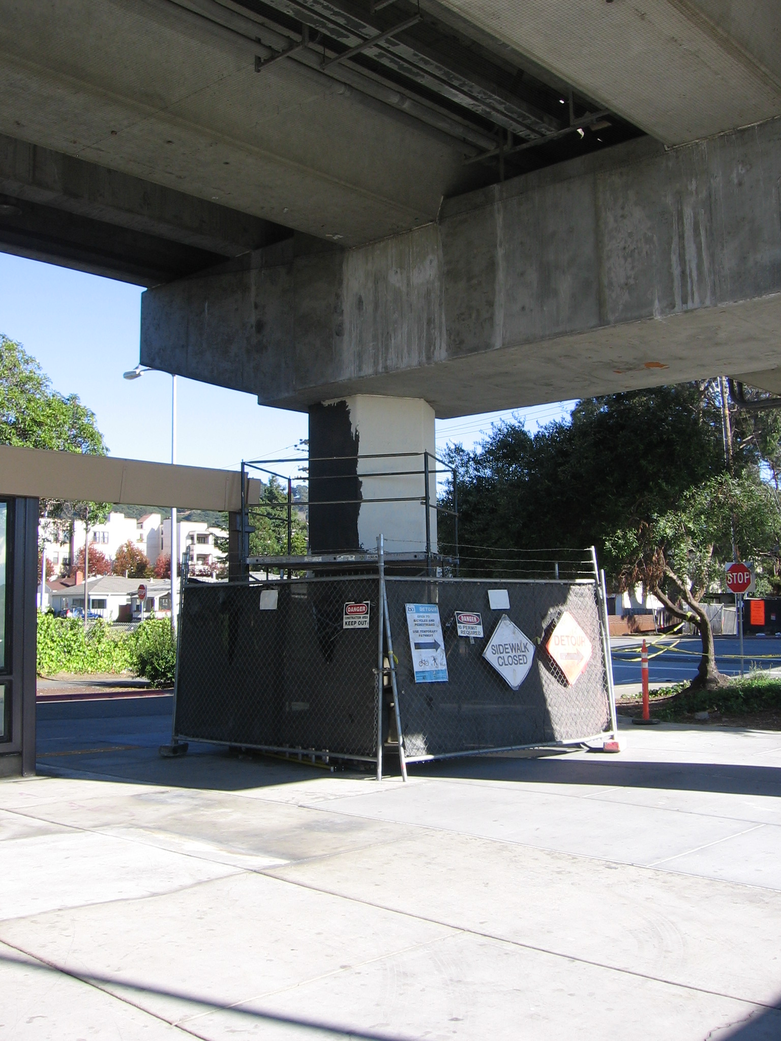 The El Cerrito del Norte (BART station) in El Cerrito, California, USA. This steel reinforced concrete pylon is in the process of being wrapped in fiberglass and refinished as part of a seismic retrofit upgrade of the BART line.